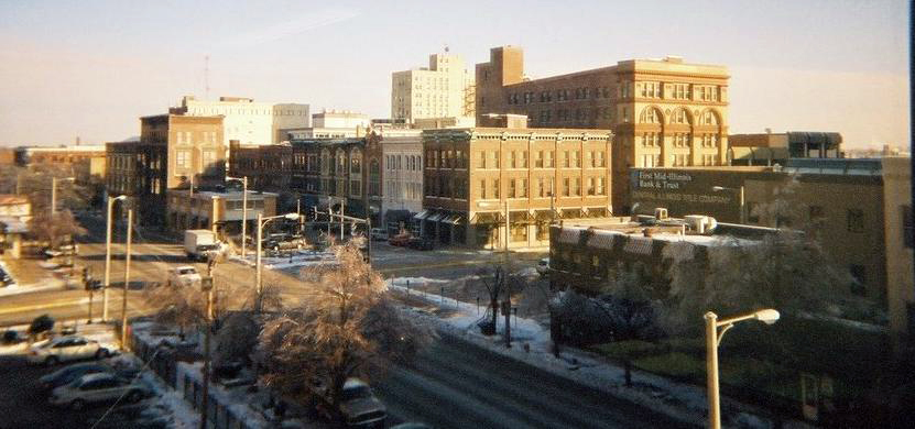 A view of downtown Decatur, IL (primarily Merchant Street), from the southwest. Merchant Street is the short street in the center. From the top left to bottom center is North/South Main Street (U.S. Route 51); the cross street is East/West Main Street; addresses in Decatur are numbered from the intersection at the left.